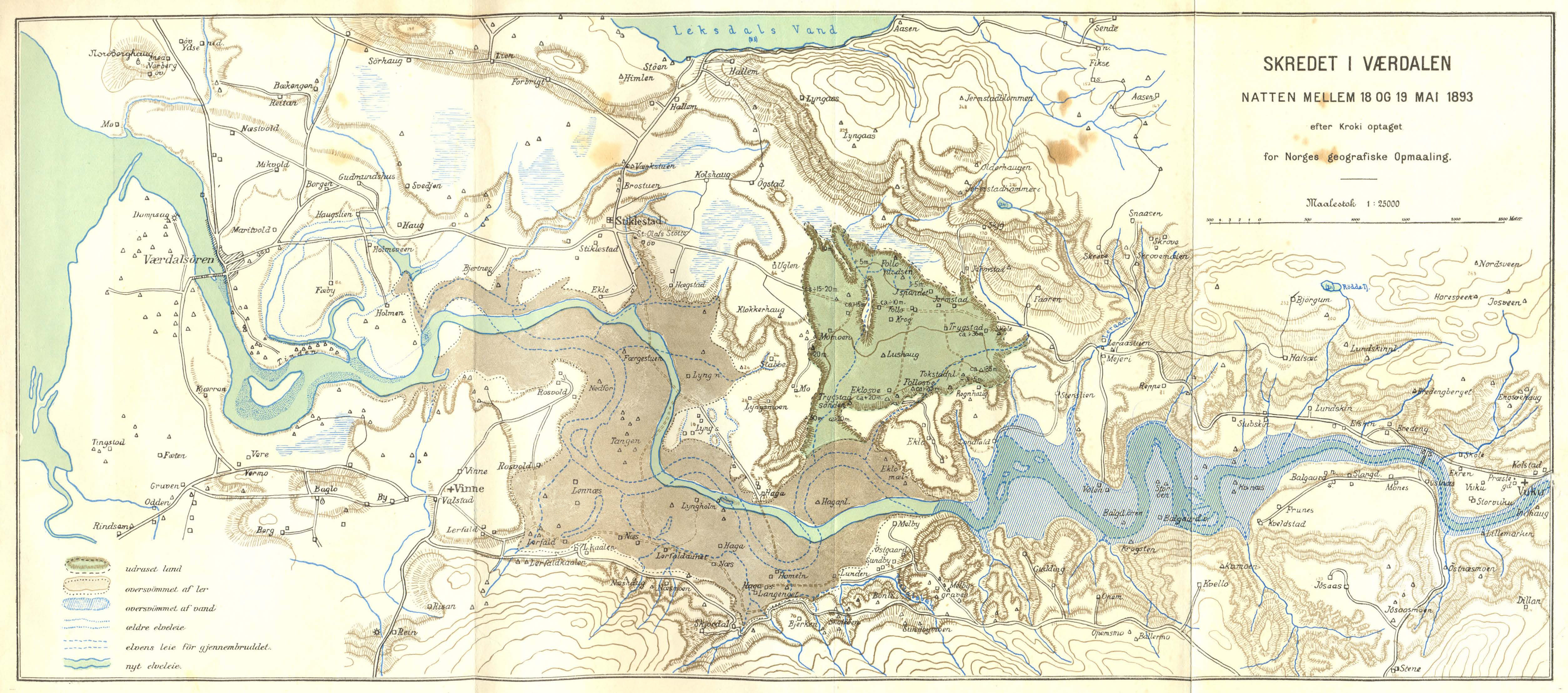 Map of Verdalsraset